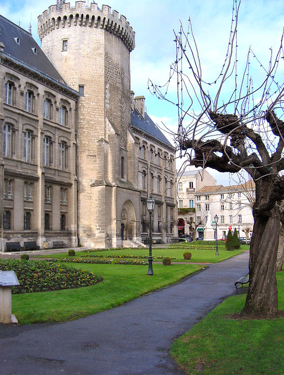 Michel Y.G. Meunier The city hall of Angouleme (France) 450 south of Paris and 120 km north of Bordeaux, state of Charente. Please, if you want to use this image commercially, insert my name and send me an email. All my images in Wikipedia (in that size) are free for commercial use, but if you want I have thousands more. Links: Angouleme